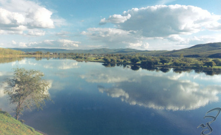 Nercha River — of eastern Siberia. The photo was taken in 2003.